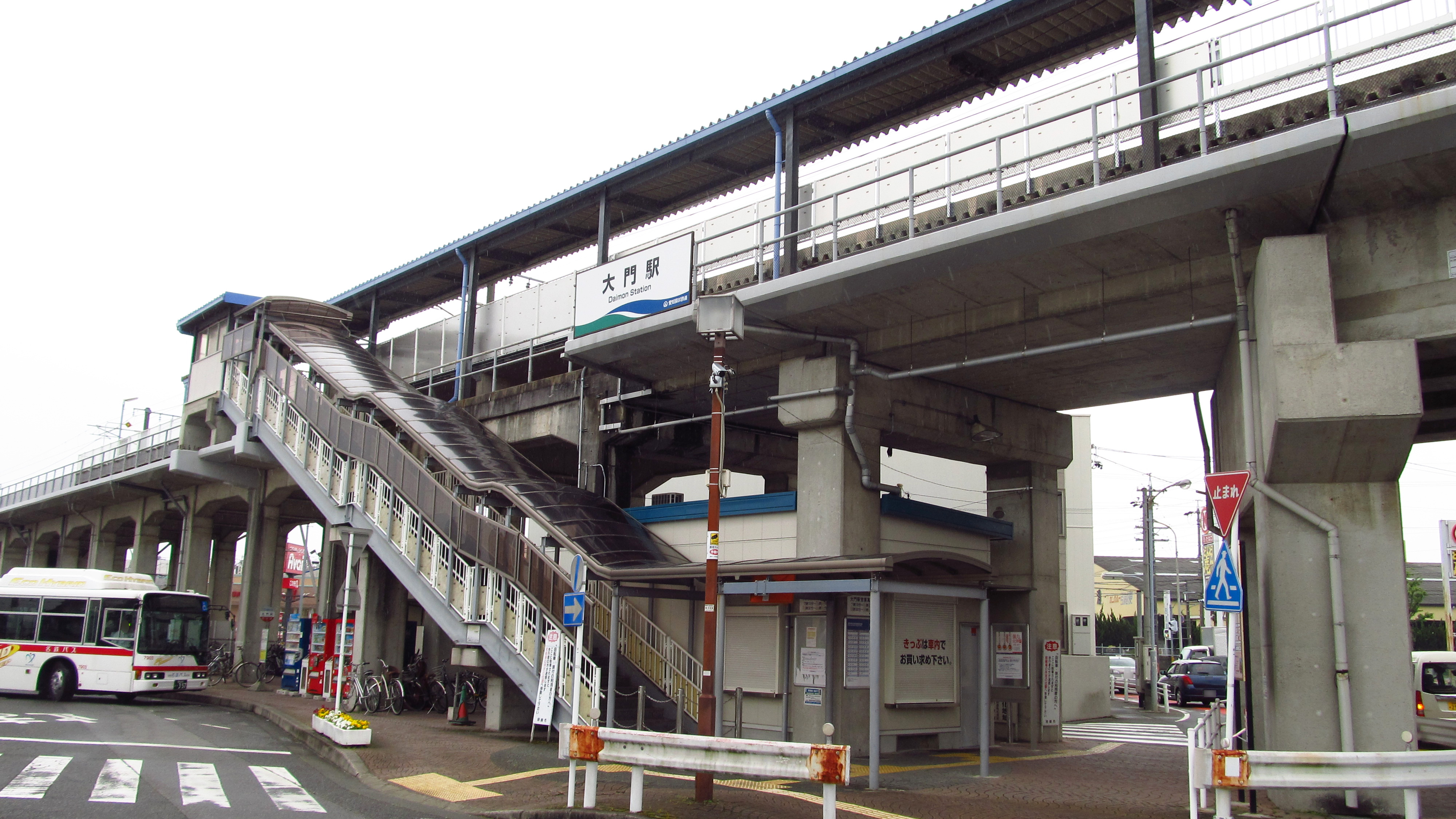 The entrance to Daimon Station on Aichi Loop Line in Okazaki city, Aichi prefecture, Japan